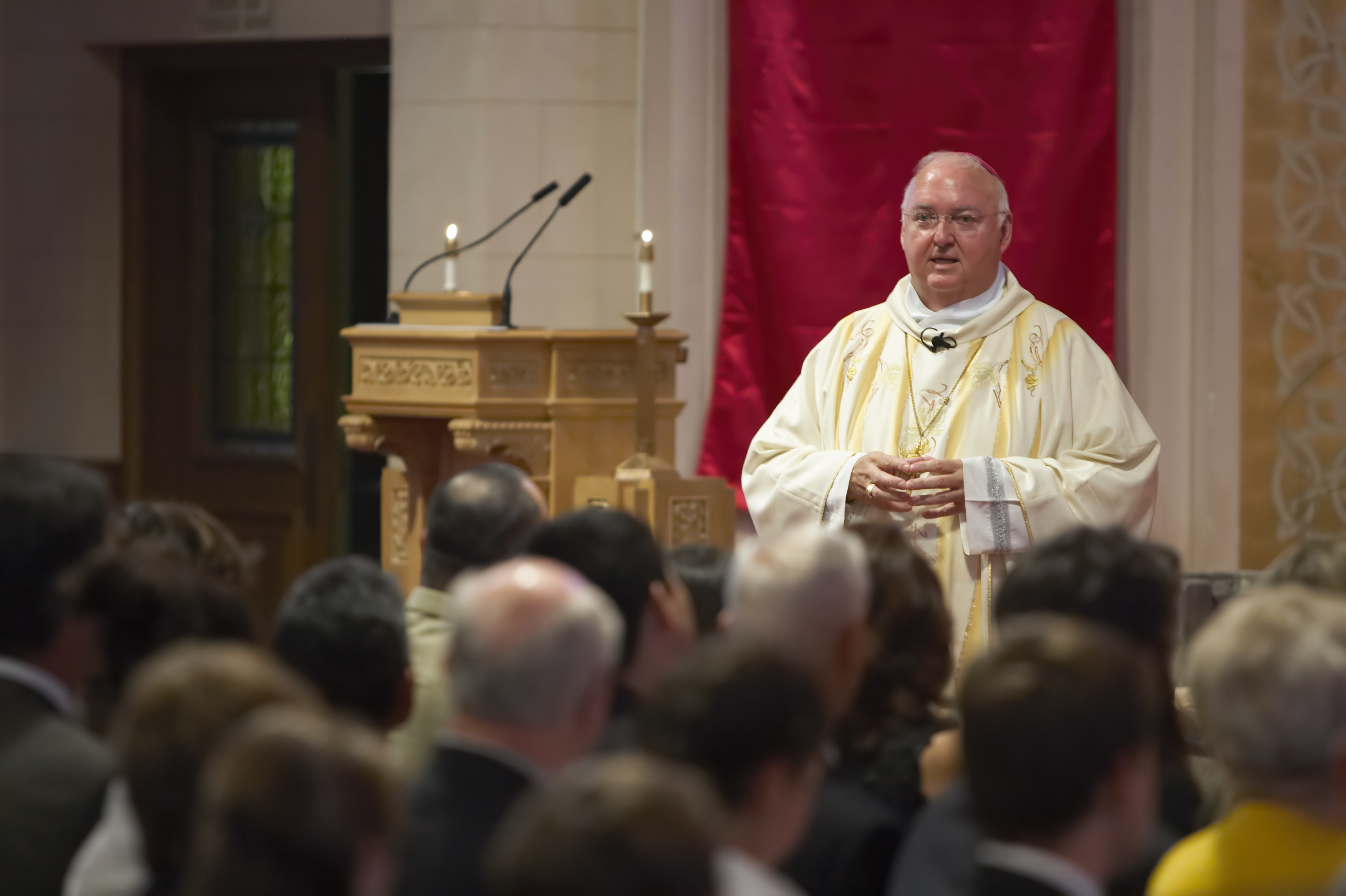 Bishop Patrick Joseph McGrath giving a homily at Saint Albert the Great in Palo Alto, California.